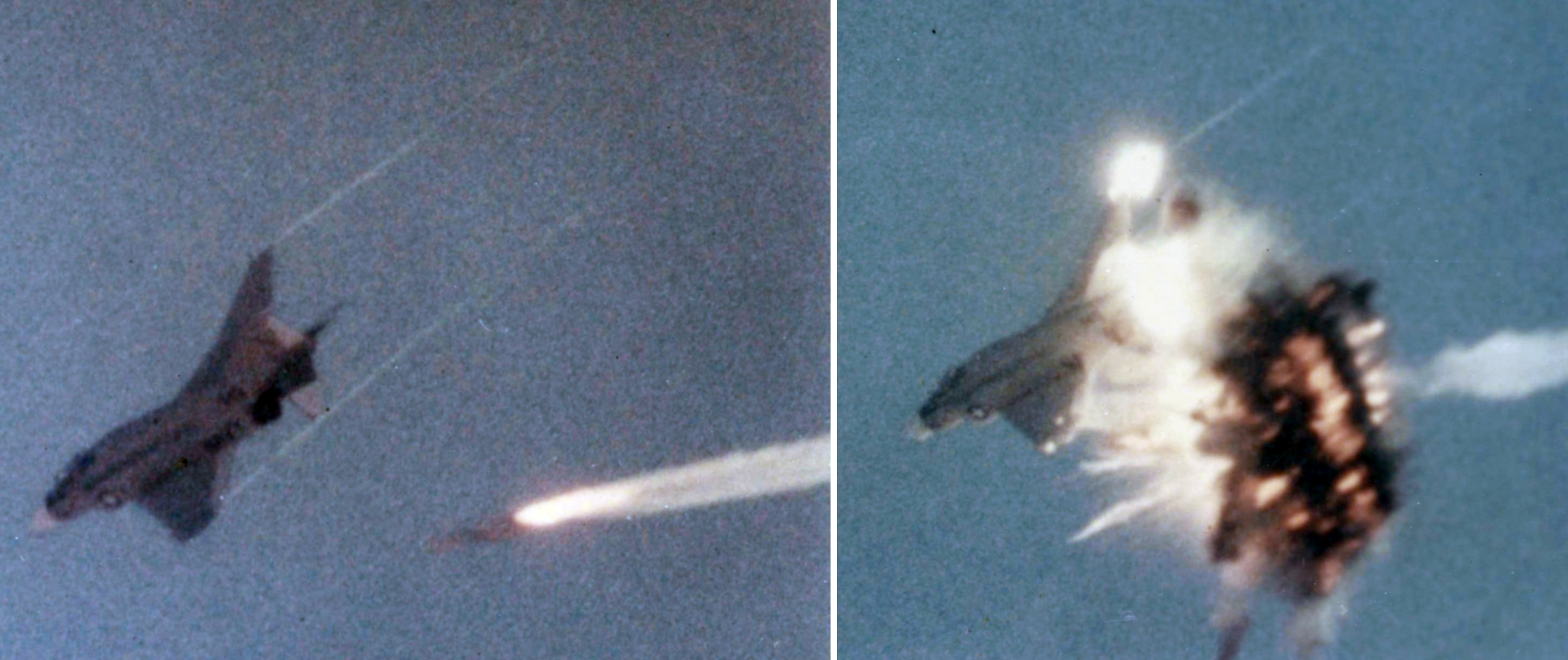 A U.S. Navy AIM-54 Phoenix missile destroys a McDonnell QF-4B Phantom II target drone over the Naval Weapons Center China Lake, California (USA).